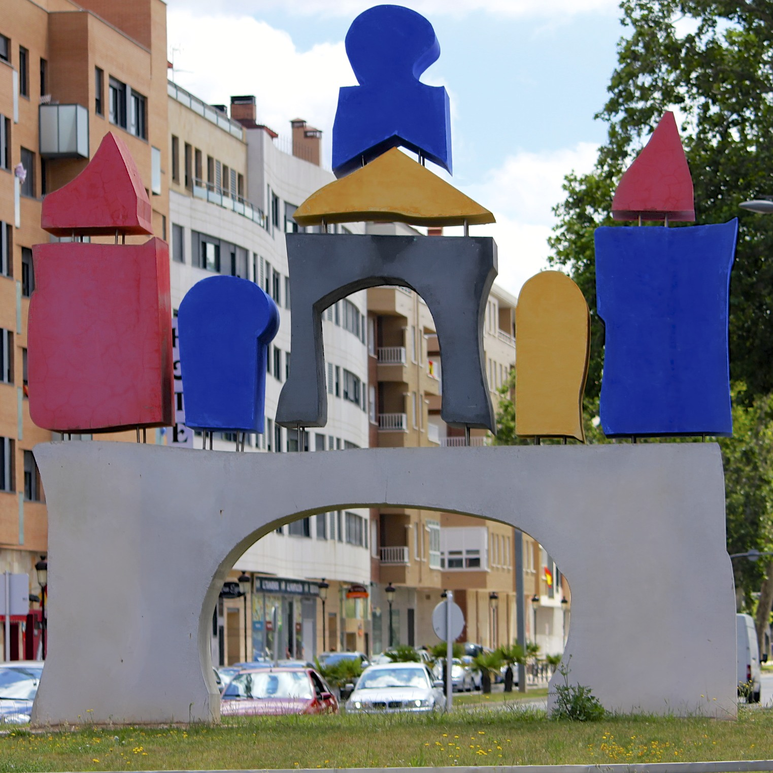 The "Romero's Gate" logo of the University of Burgos